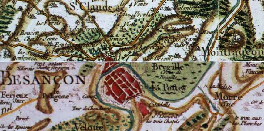 Cassini Map of Besançon-Bregille-Chaprais (1780).